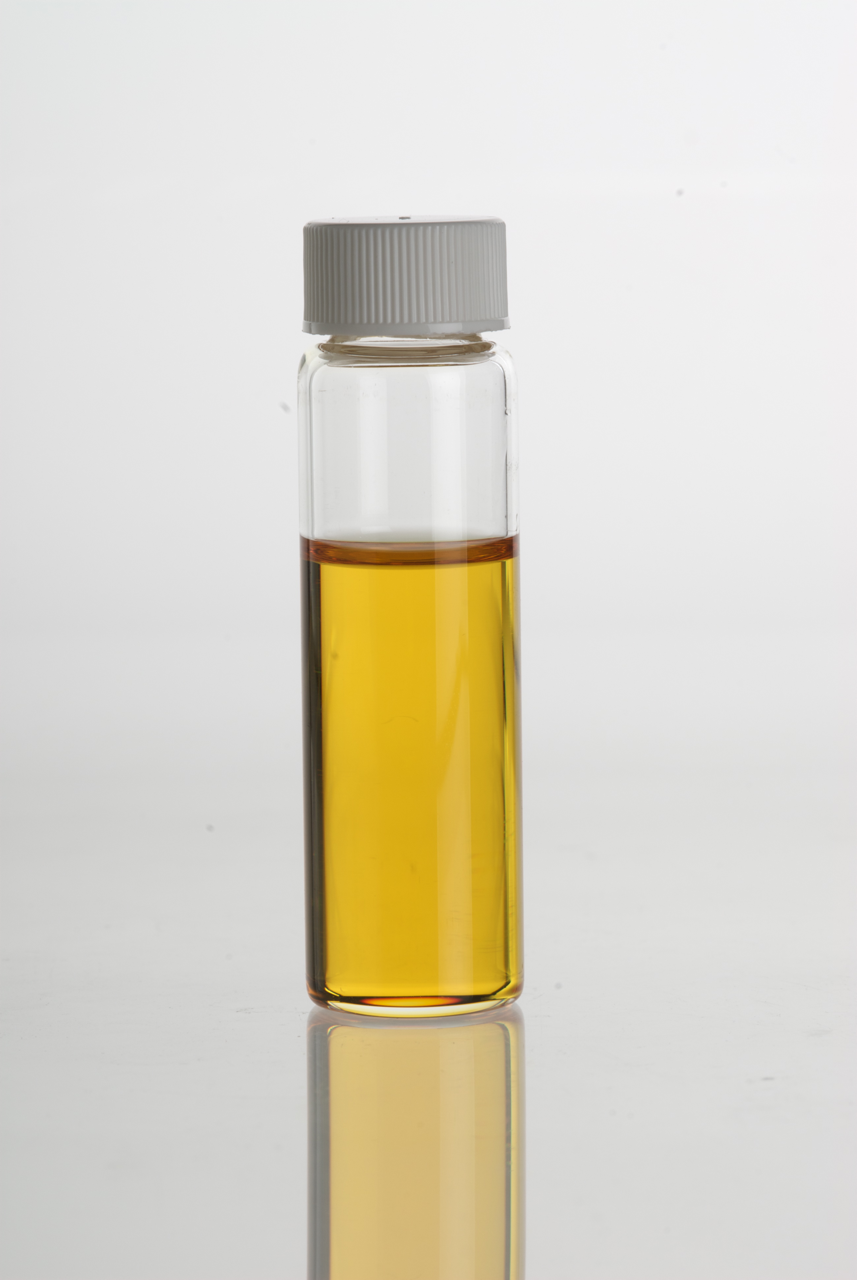 Cinnamon Bark (Cinnamomum verum) Essential Oil